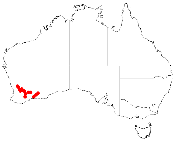 Scaevola tortuosa occurrence data downloaded from Australasian Virtual Herbarium on 12 May 2019